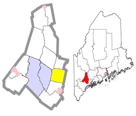 Map of the divisions of Androscoggin County, Maine, United States, with the town of Sabattus highlighted in yellow. The cities of Auburn and Lewiston are light blue; other towns are white; and pink areas are census-designated places within towns.